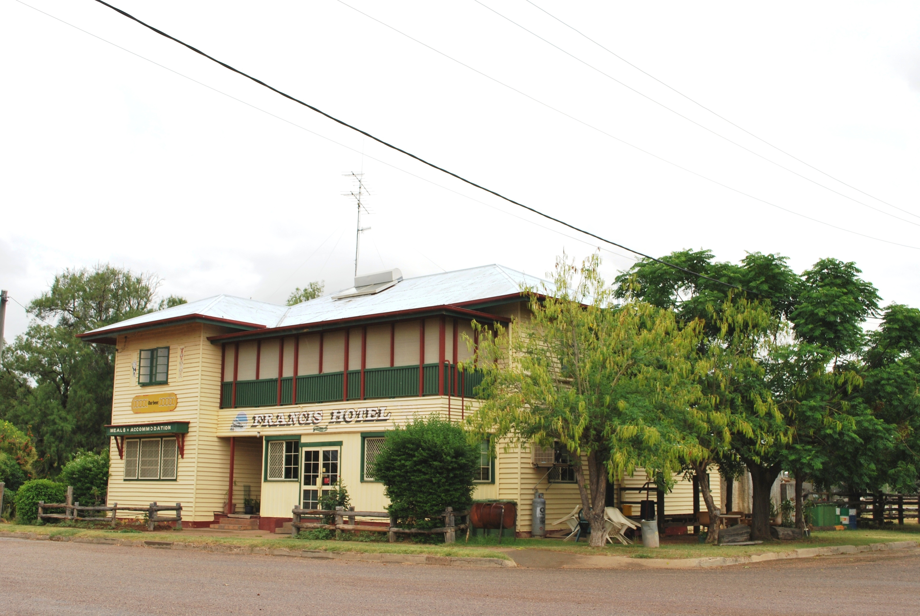 The Francis Hotel at Thallon, Queensland